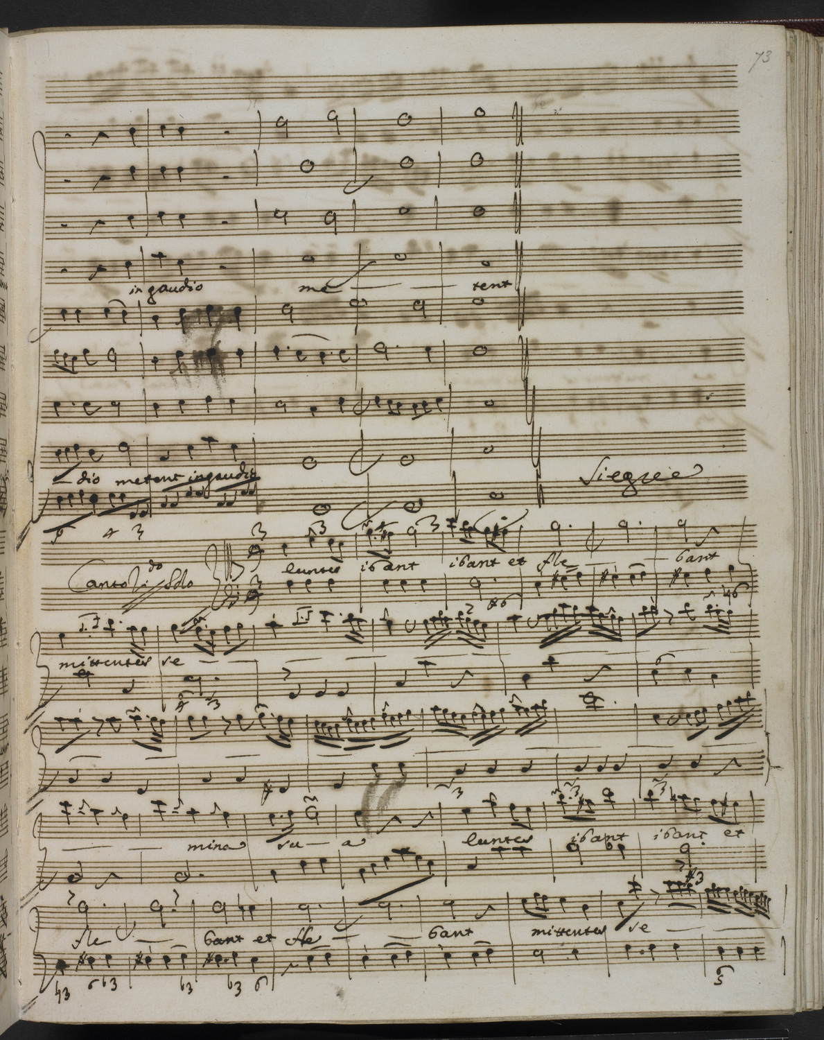 In convertendo Dominus. In the composer's hand.